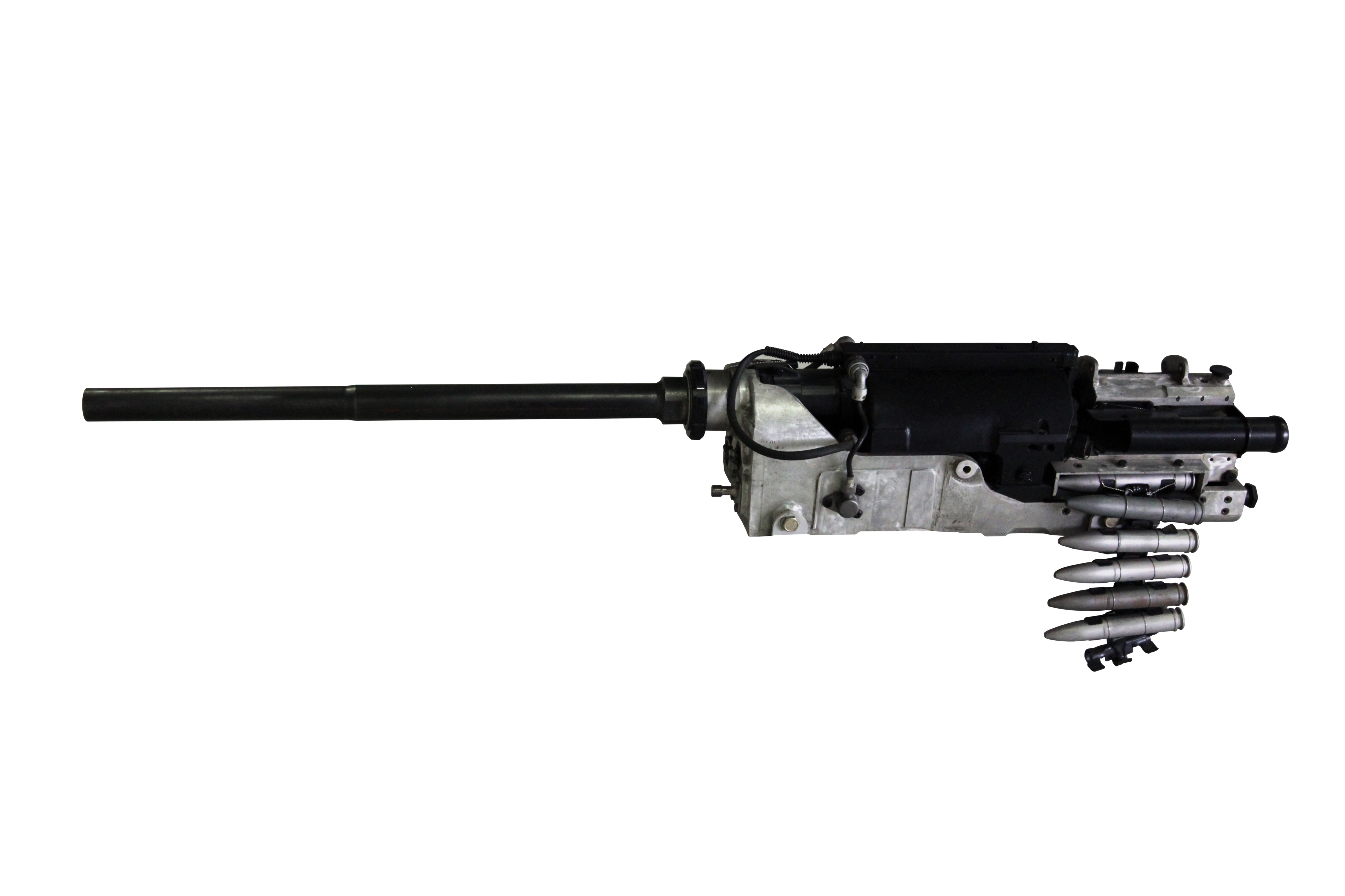 30 mm ADEN Mk 4 cannon on display at the Imperial War Museum Duxford